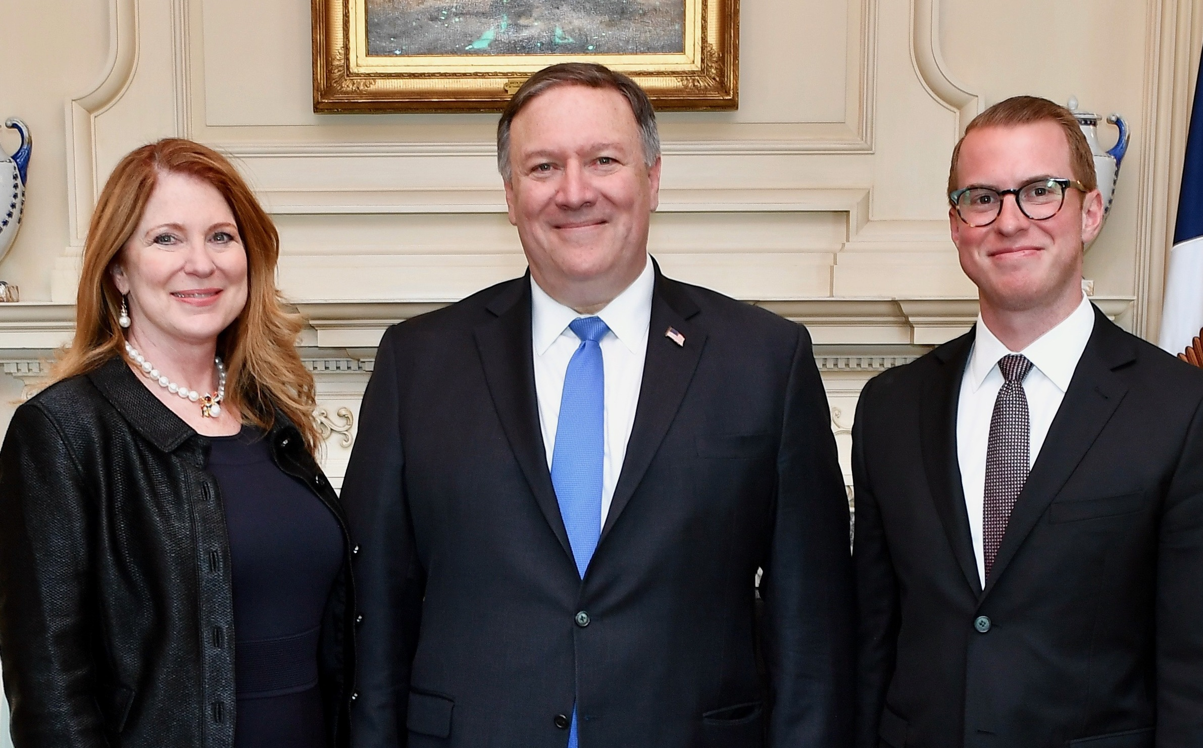 U.S. Secretary of State Mike Pompeo poses for a photo with his wife Susan and son Nicholas in his outer office at the U.S. Department of State in Washington, D.C., on May 1, 2018. [State Department photo/ Public Domain]